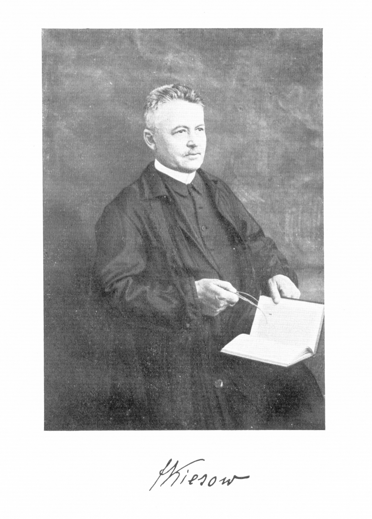 Friedrich Kiesow